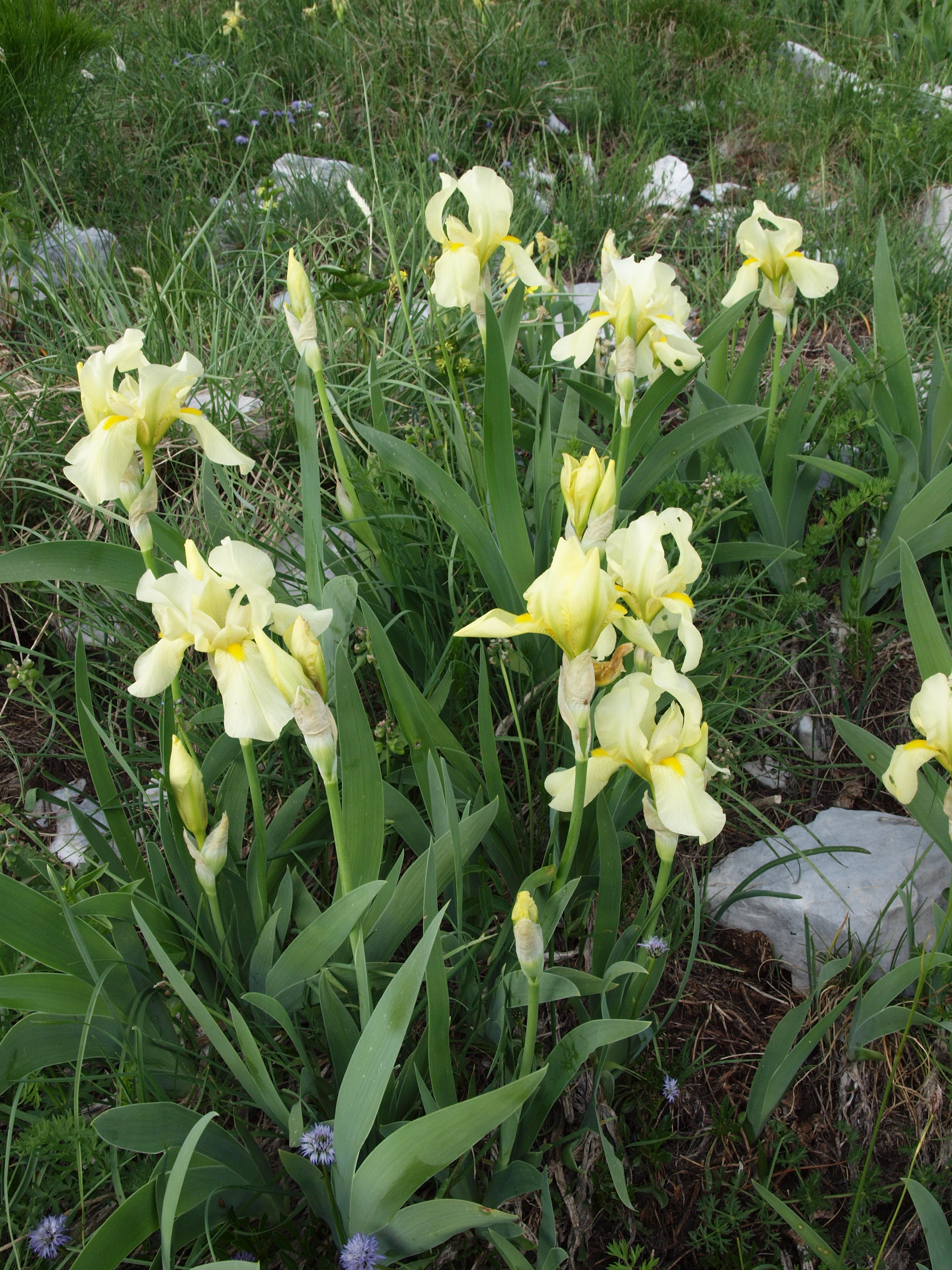 Iris orjenii from the wild